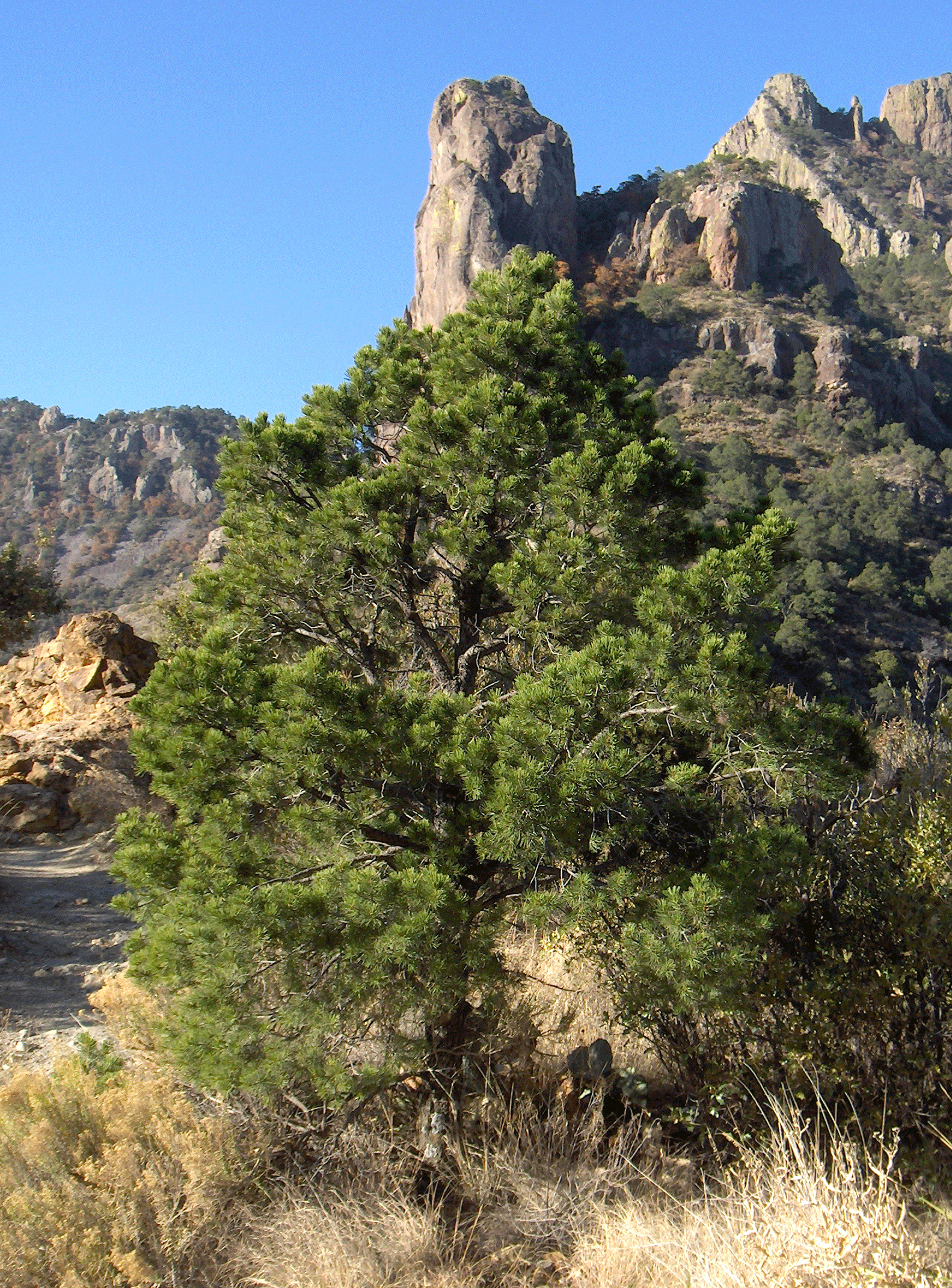 Pinus cembroides, Big Bend National Park, Texas